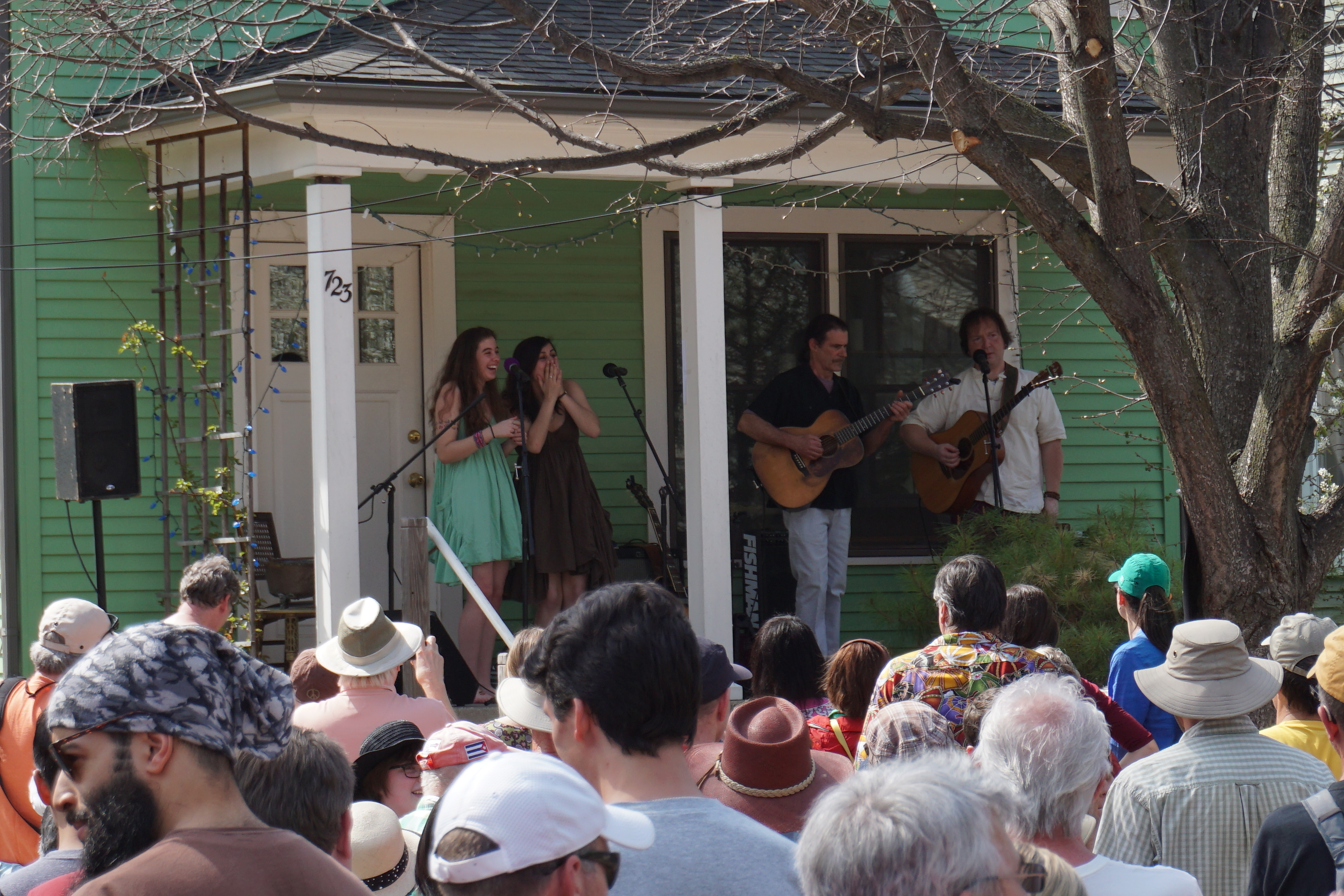 Dick Siegel performing at the 2015 Water Hill Music Fest in Ann Arbor, Michigan (United States).